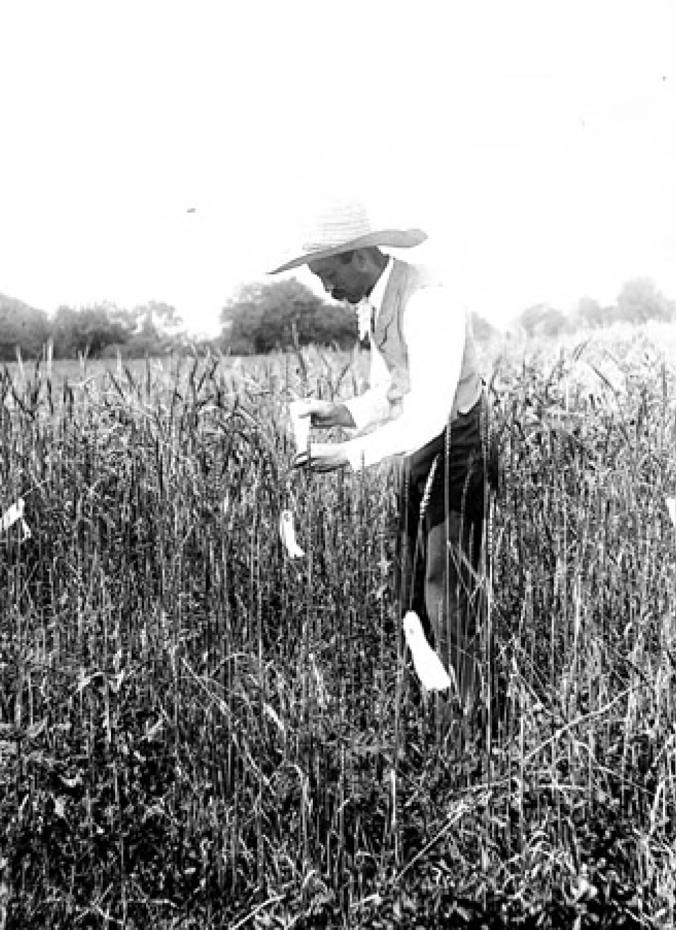 Photograph of Mark Carleton of the United States Department of Agriculture Division of Vegetable Physiology and Pathology at Garrett Park, Maryland, examining an experimental wheat crop in 1899.